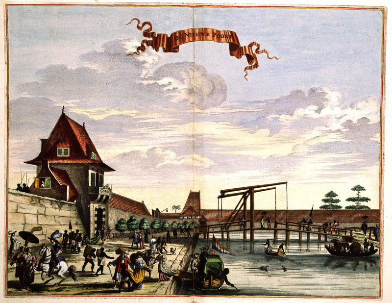 The New Gate (Nieuwepoort), Batavia's (now Jakarta) southern entrance, seen from the inner city. The structure in the center is Hollandia bastion.